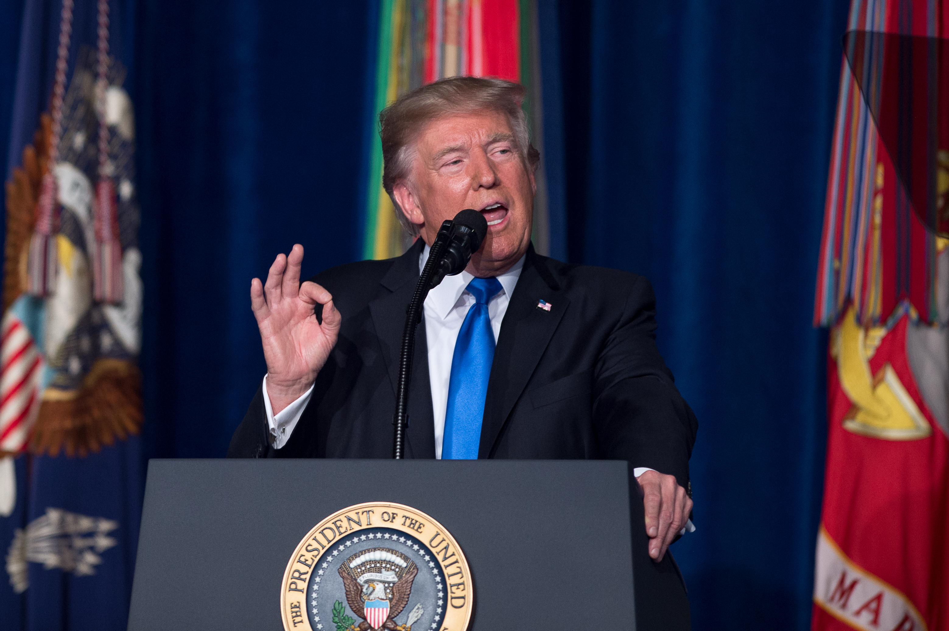 President Donald J. Trump addresses the nation on the South Asia strategy during a press conference at Conmy Hall on Fort Myer, Va., Aug. 21, 2017. (DoD photo by Army Sgt. Amber I. Smith)